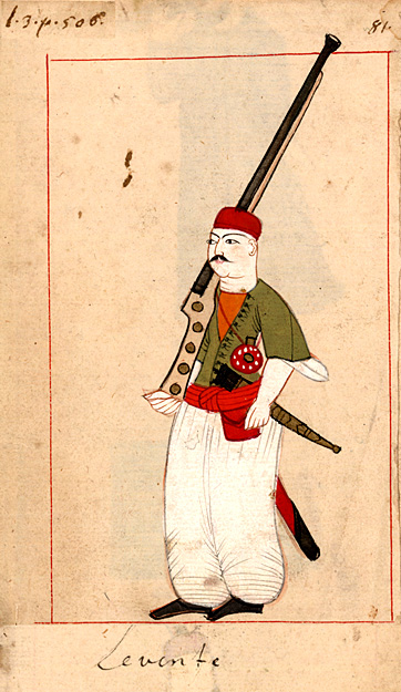 Irregular turkish soldier (levente) from Ralamb Costume Book. Miniatures in Indian ink with gouache and some gilding. They were acquired in Constantinople in 1657-58 by Claes Rålamb who led a Swedish embassy.